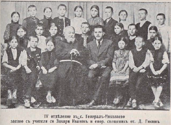 Students from 4 grade in General Nikolaevo School, 1939